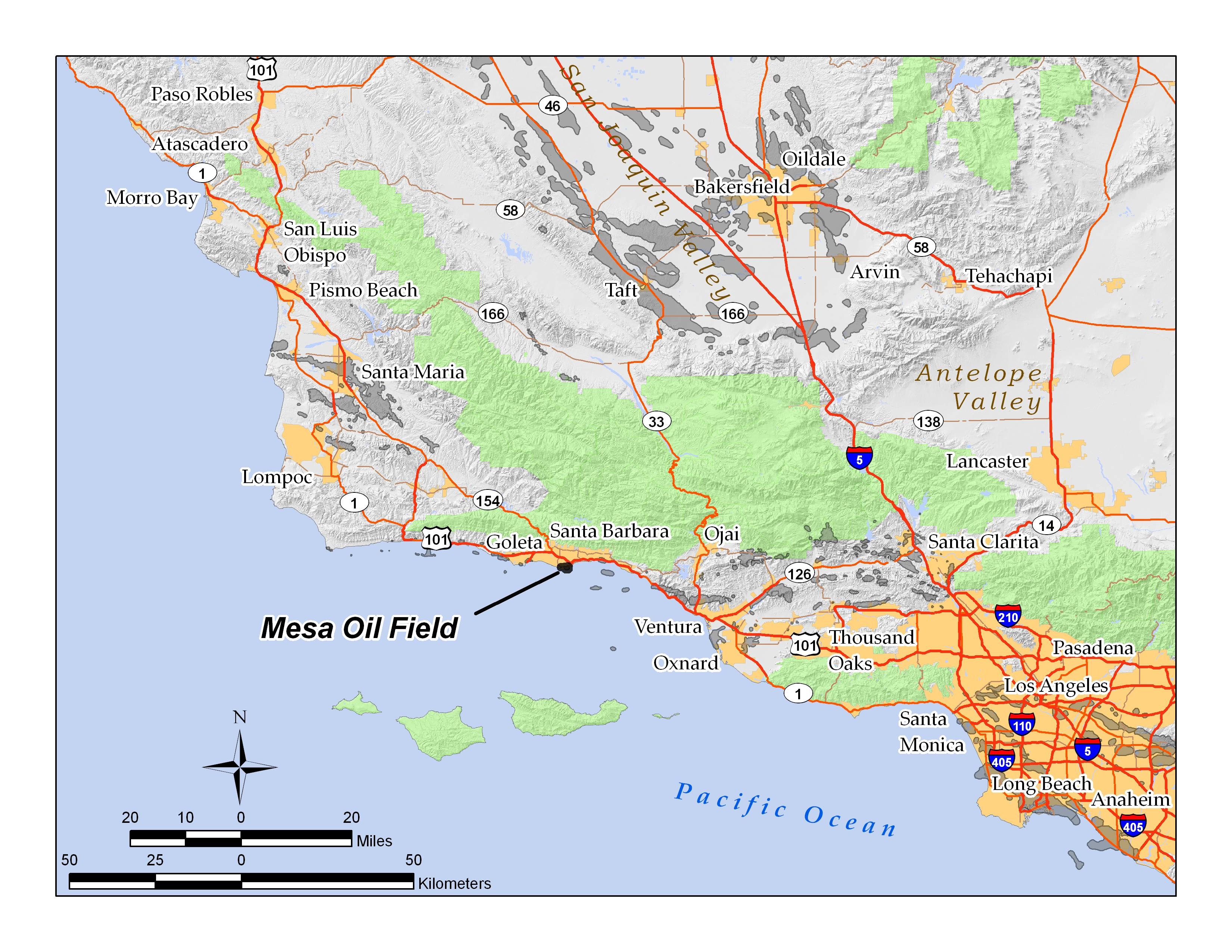 Abandoned Mesa oil field location; by self in ArcGIS 9.3; GFDL/equiv. All data shown is in the public domain